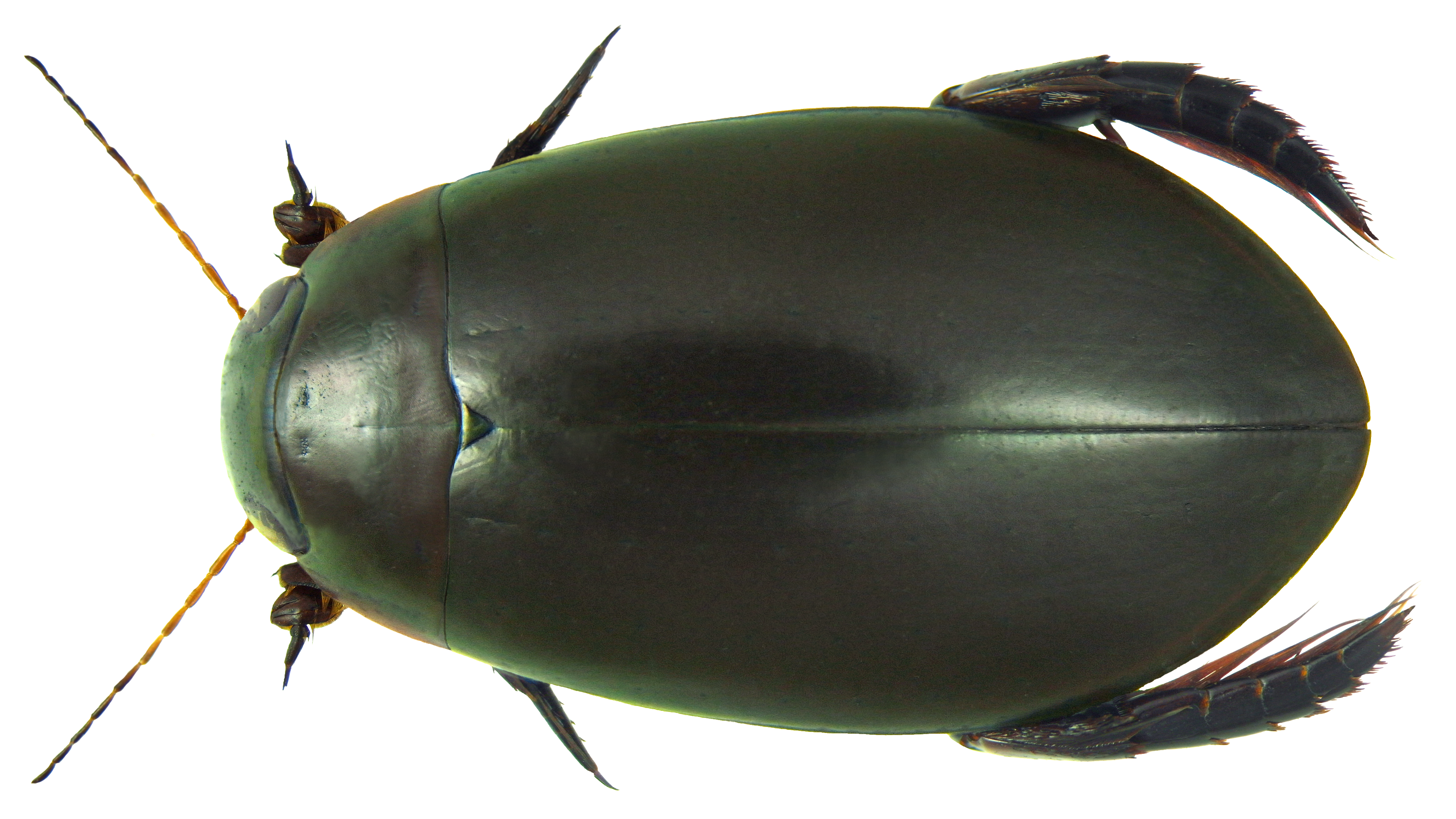 Dorsal view of Cybister sugillatus Familie: Dytiscide Groesse: 21 mm Fundort: Laos, Hua Pan-Prov. , Phu Phan Mt., 1500-1900 m leg. M.Brancucci, 7.V.-3.VI.2007; det. Hendrich, 2011 Photo: U.Schmidt, 2012